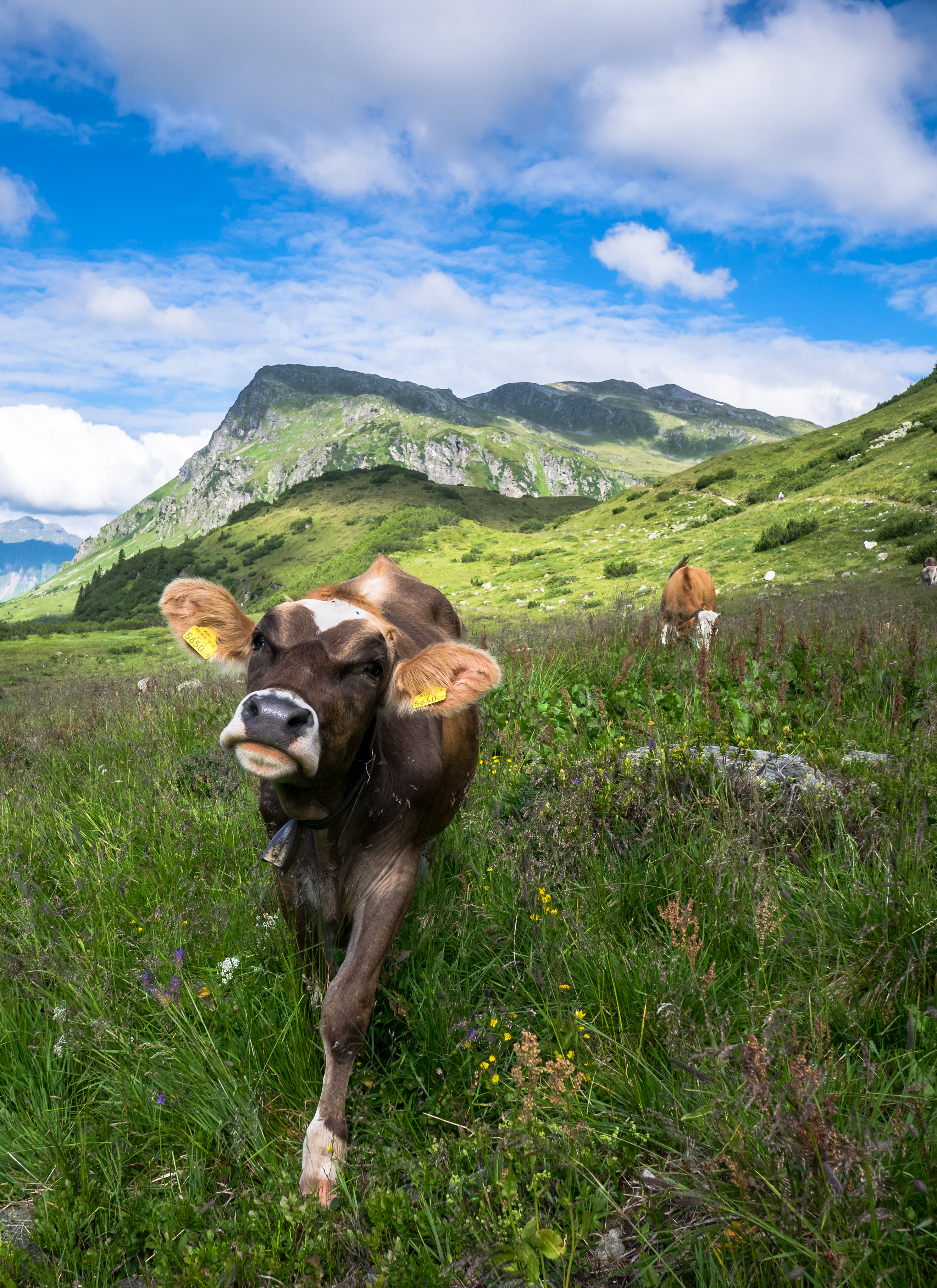 Cattle in the Kops and Zeinis lake area. Vorarlberg, Austria